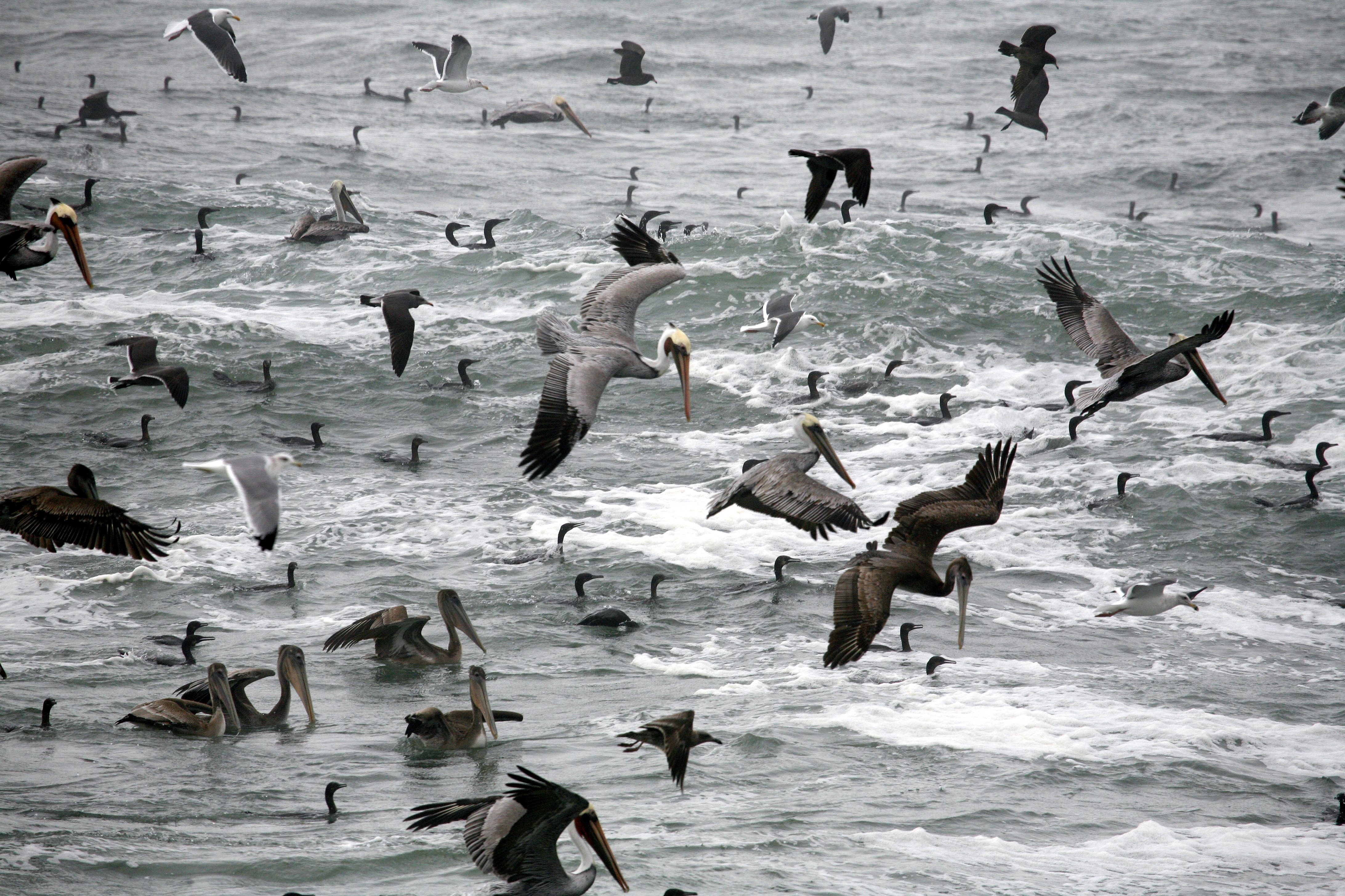 Feeding Frenzy of Cormorants and Brown Pelicans in the foggy and stormy swells at the Montaña de Oro Bluff Nature Walk 11-8-06 given by Barbara & Ernest Eddy, photo by Mike Baird, This image was used in a San Diego Natural History Museum exhibit WATER: A CALIFORNIA STORY - The exhibit will open to the public on July 19th, 2008 (more)